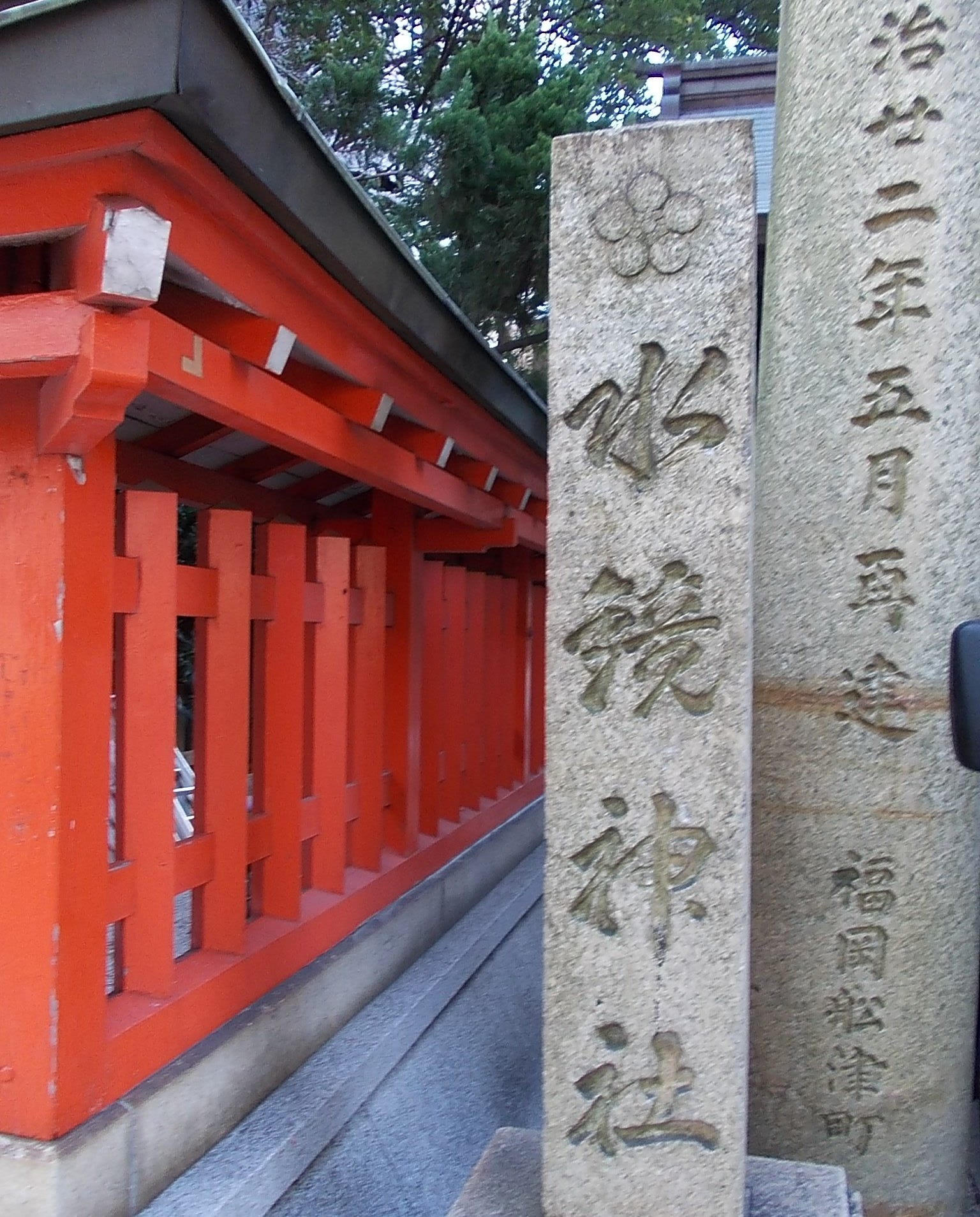 It was taken in Fukuoka.